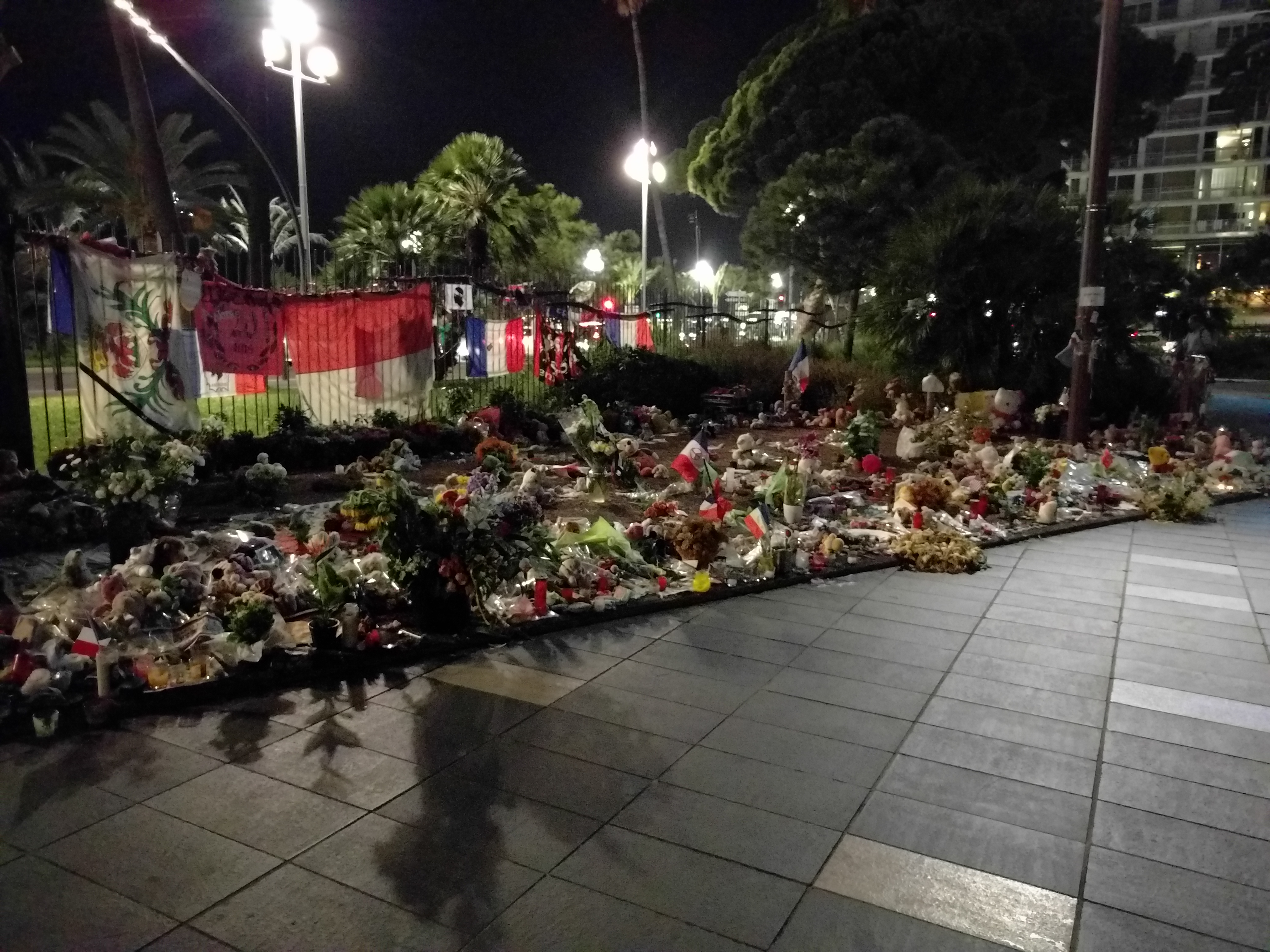 Memorial of July 14th, 2016 in Nice.